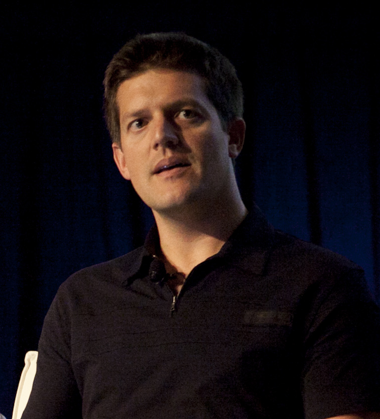 Roelof Botha of Sequoia Capital, at TechCrunch Disrupt 2010.